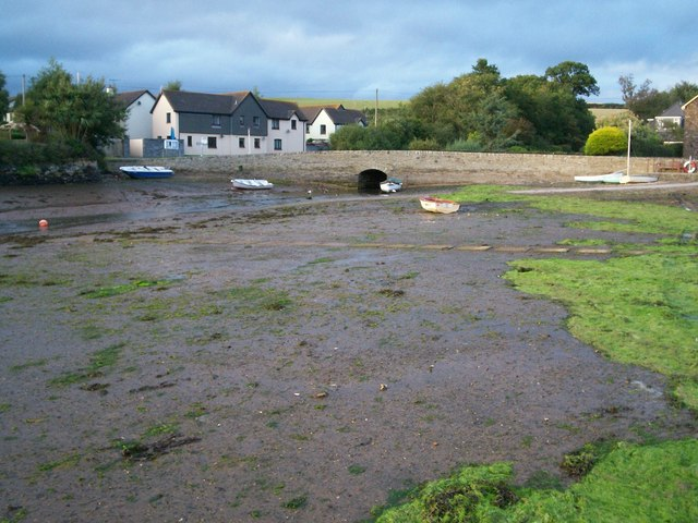 Frogmore. Road bridge at the top of Frogmore Creek.